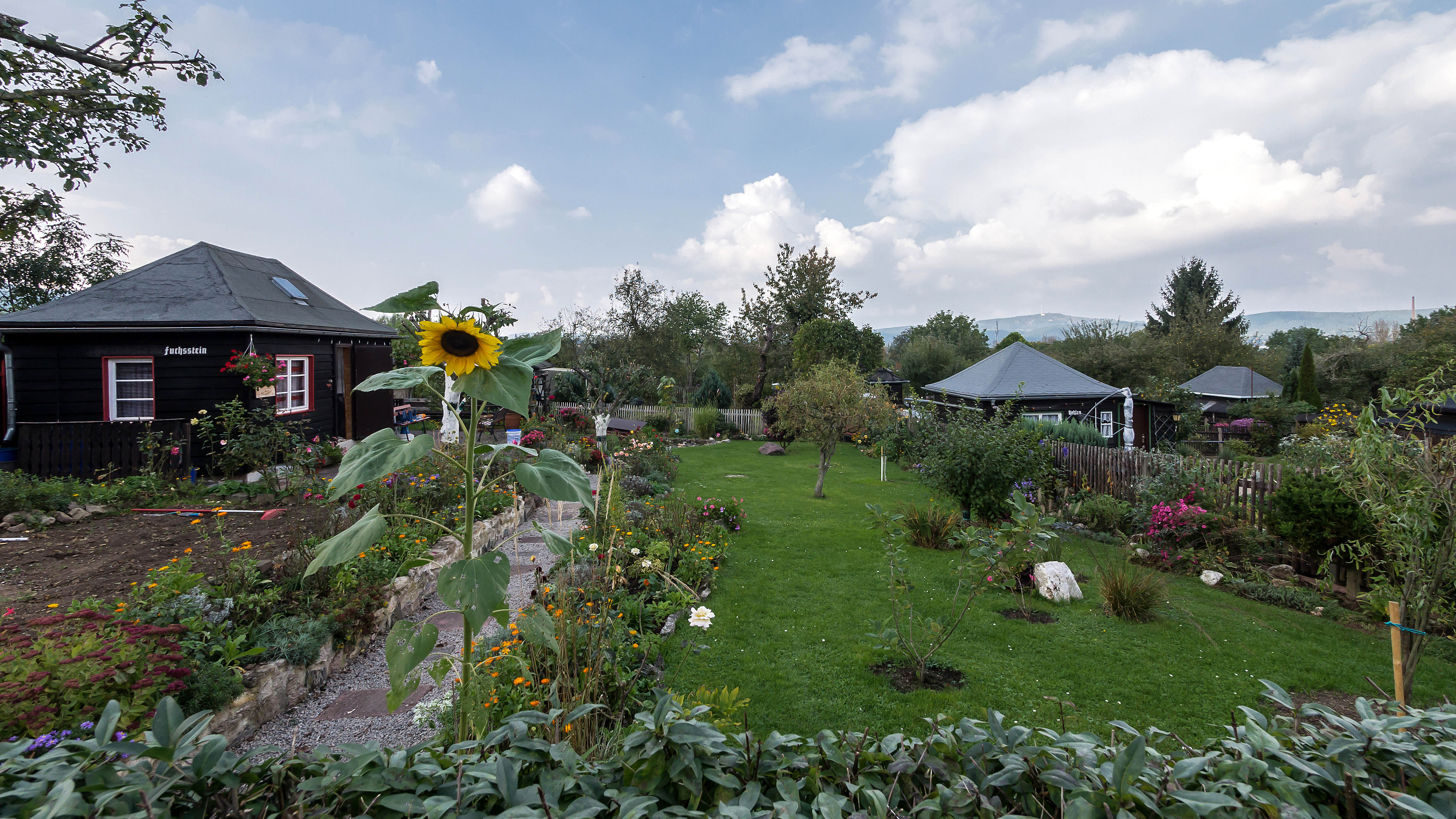 Saalfeld Neumühlenweg Laubenkolonie